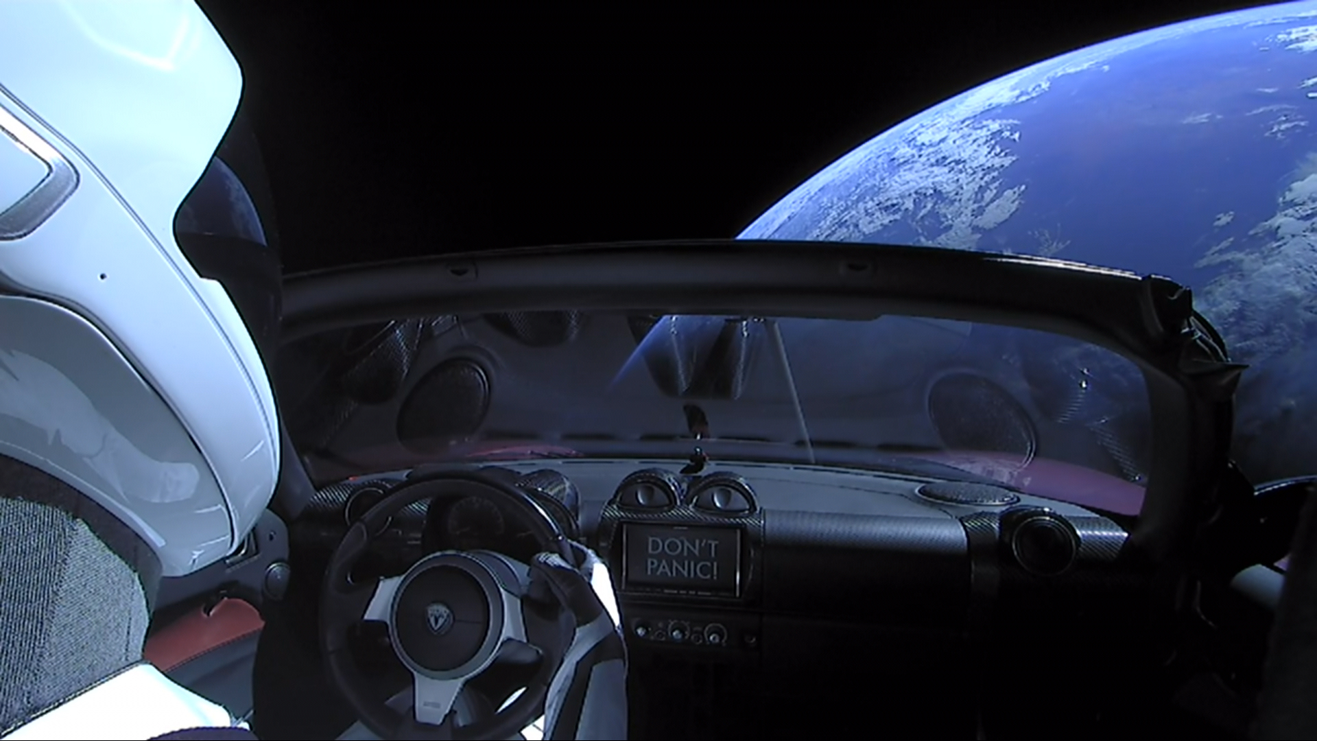 Elon Musk's Tesla Roadster, with Earth in background. "Spaceman" mannequin wearing SpaceX Spacesuit in driving seat. Hitchhiker's Guide to the Galaxy "Don't Panic" sign visible in place of in-car entertainment screen. Camera mounted on rollcage.